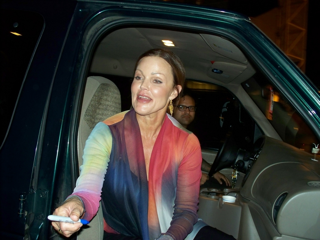 Belinda Carlisle--The Go-Gos----all women 80s pop band. Belinda Carlisle-lead vocals,Jane Wiedlin-guitar,Charlotte Caffey-guitar and keyboard, Kathy Valentine-bass, Gina Schock-drums. They performed at the Wilbur Theater, Boston, Mass. May 13, 2012.